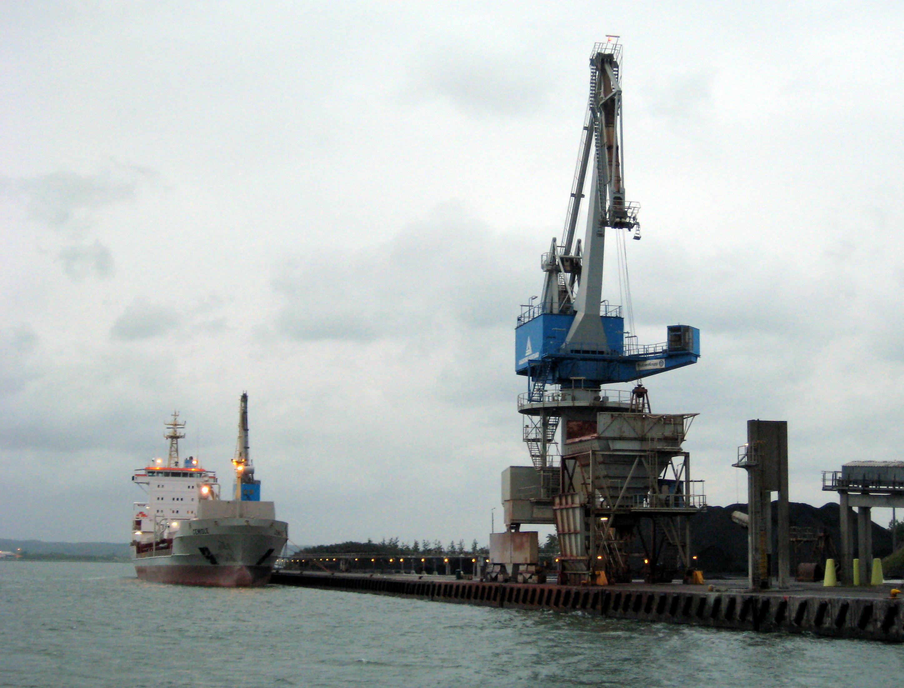 Cemisle (IMO 9213911), Aalborg Portland